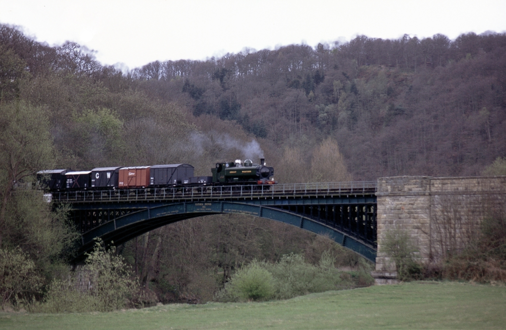 This photo is © Les Chatfield 2010. Licensed under a Creative Commons Attribution licence. 57xx Pannier tank 5764 crossing the Victoria Bridge on the SVR. The original is at Some annoying dust marks and people removed from the original slide.